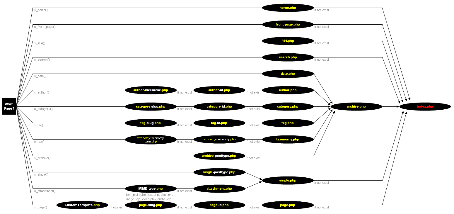 Wordpress Template Hierarchy.